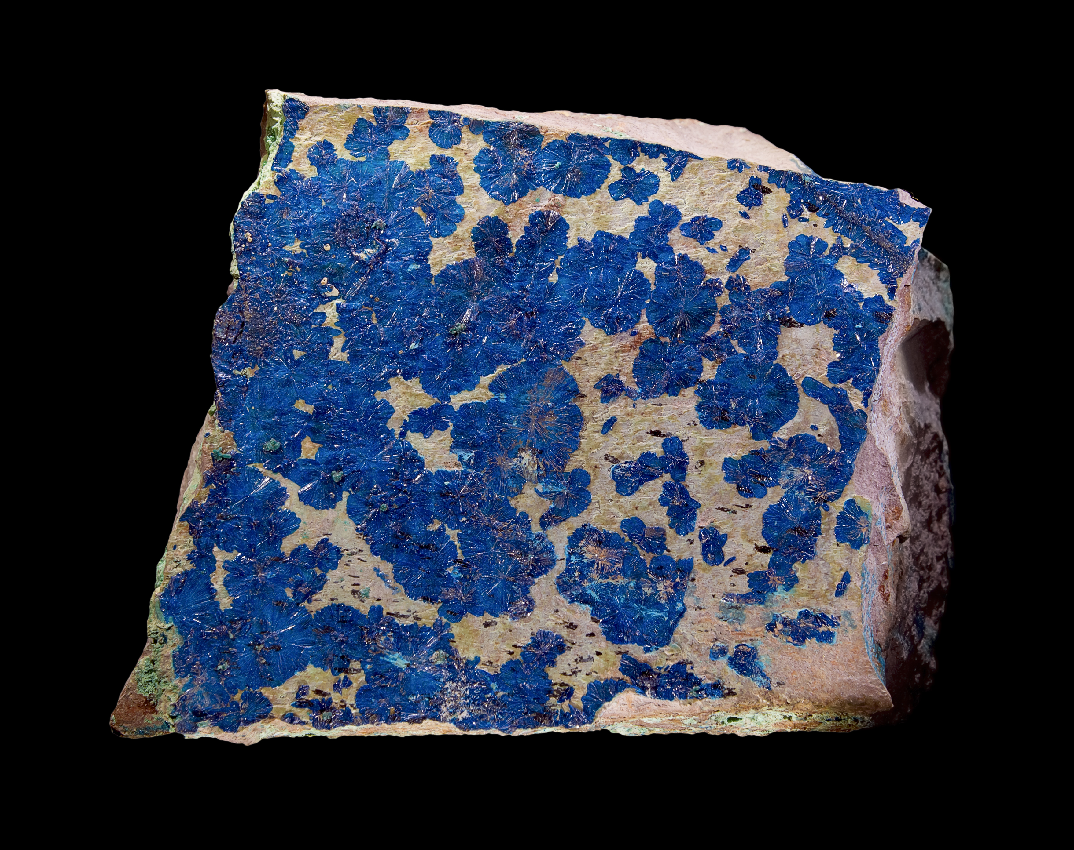 Cornetite Locality: L'Etoile du Congo Mine (Star of the Congo Mine; Kalukuluku Mine), Lubumbashi (Elizabethville), Southern area, Katanga Copper Crescent, Katanga (Shaba), Democratic Republic of Congo (Zaïre) Size: 7.8 x 6.0 x 2.2 cm.